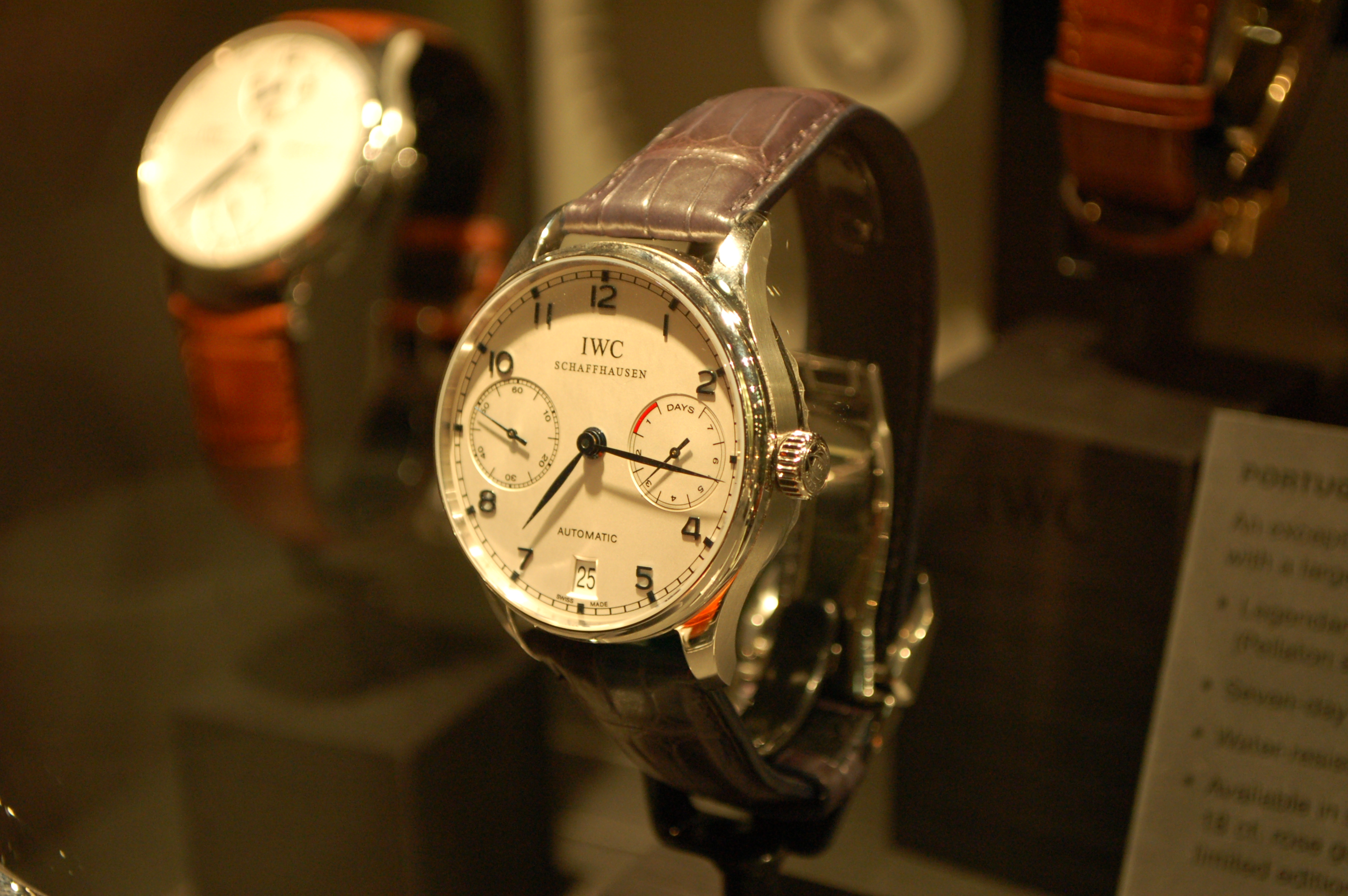 The IWC Portuguese Automatic.